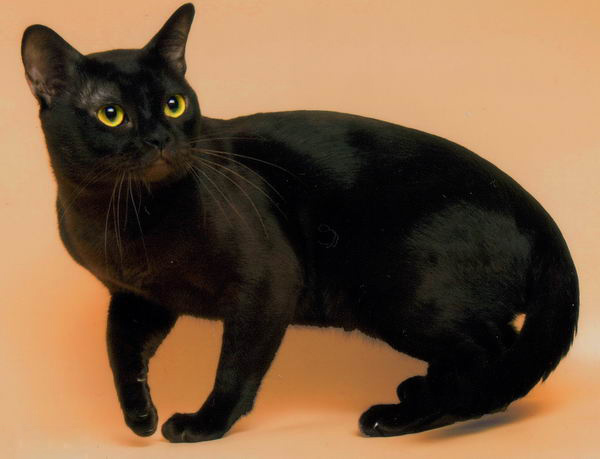 SacredSpririt Indiana Jones. Sable burmese cat